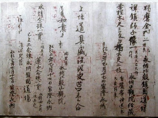 List of Ritual Implements of Esoteric Buddhism and other objects brought back by the Priest Saichō (羯磨金剛目録, katsuma kongō mokuroku). An inventory of items that Saichō brought back from China and stored at Hiezan in 805. Located at Enryaku-ji, Ōtsu, Shiga, Japan. The scroll has been designated as National Treasure of Japan in the category ancient documents.